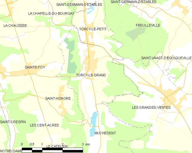 Map of French municipality Torcy-le-Grand